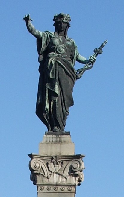 The Monument of Liberty in Rousse, Bulgaria — the statue at the top. The image was edited with GIMP. Accidentally, there was a pigeon on the upper right corner of the statue's head, it was covered with copies of the nearby sky background.